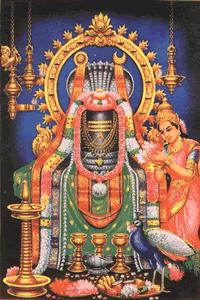 right|thumb|200px|Goddess Karpagambal (peahen form) with Lord Kapaleeswarar